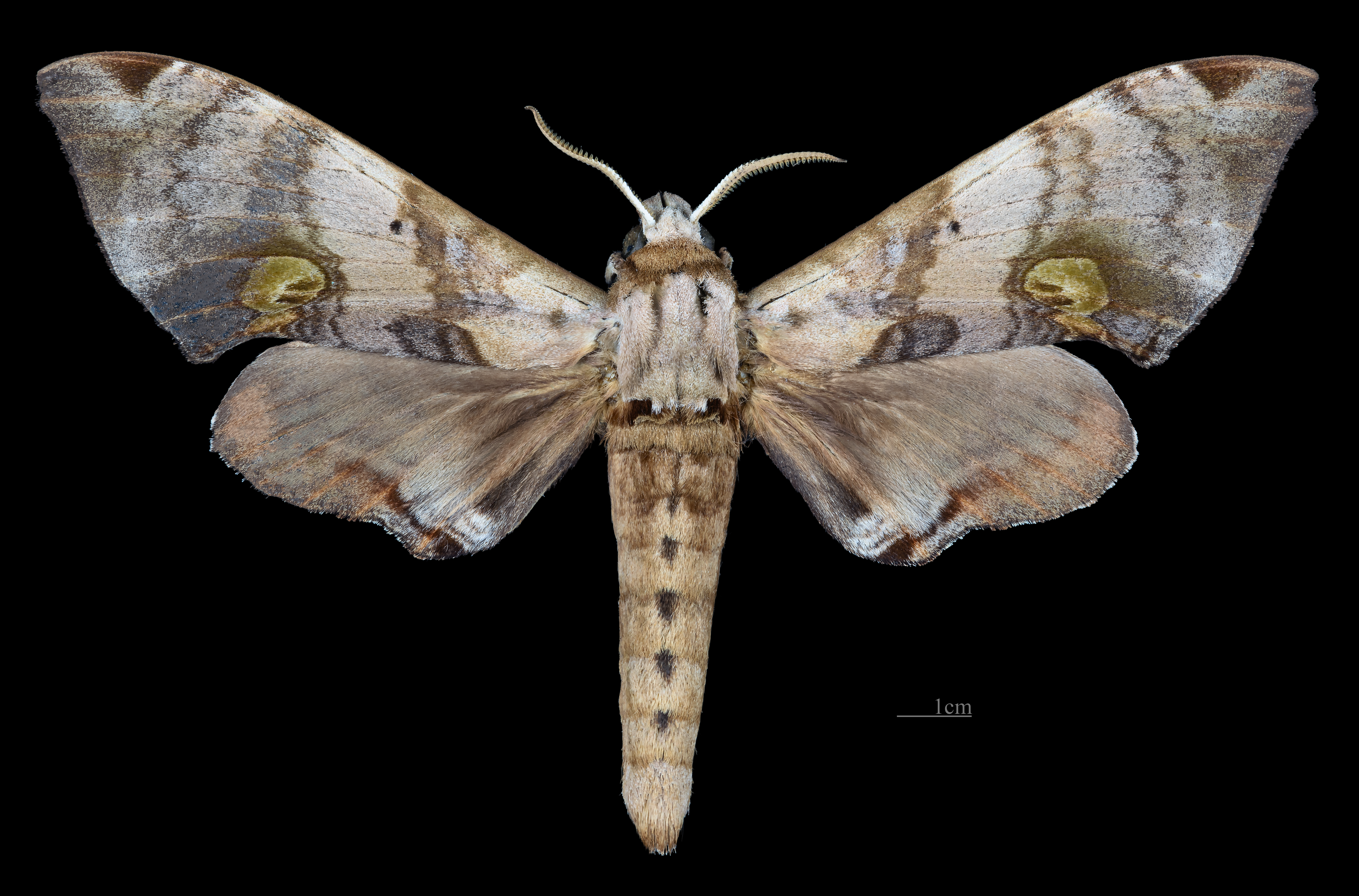 Daphnusa sinocontinentalis - Dorsal side Collection of the Mathematician Laurent Schwartz